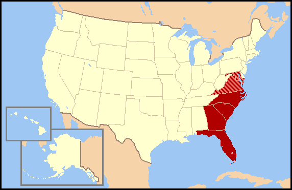 Wikipedia:WikiProject U.S. regions/mnote I made this -JCarriker 17:01, 11 December 2005 (UTC)